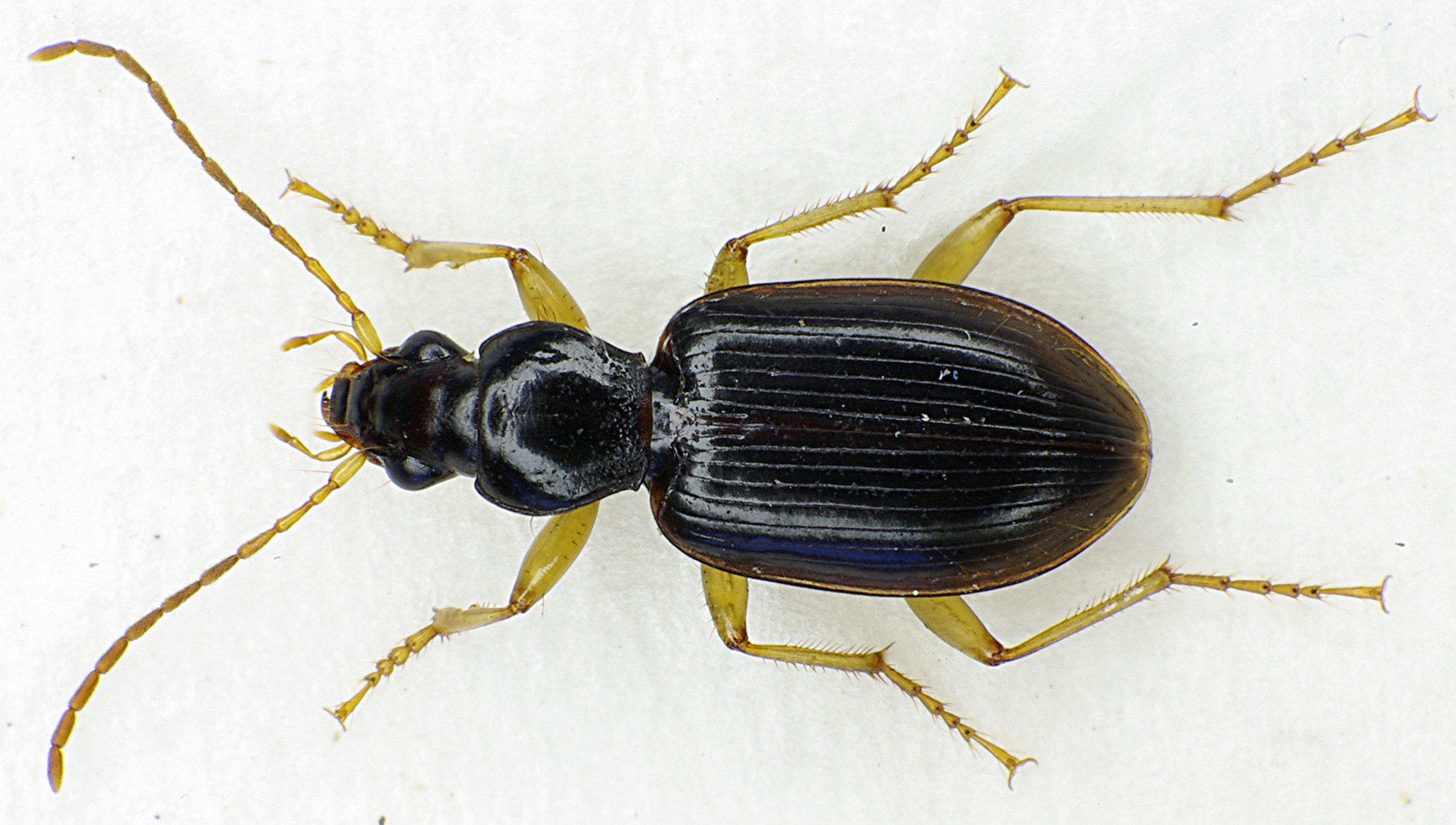 Paranchus albipes from riverside of rather small brook in Southern Germany, Schwäbische Alb